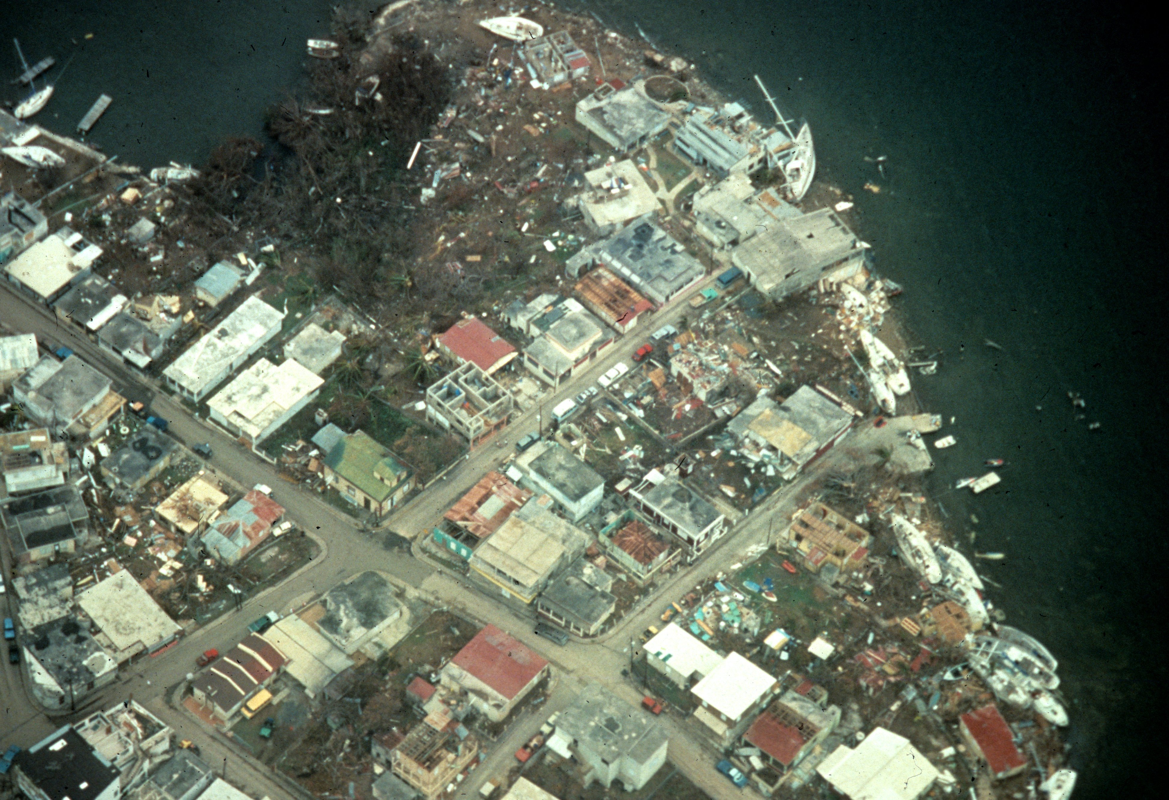 Hurricane Hugo devastated portions of the Caribbean before striking Charleston. Image ID: wea02373, NOAA's National Weather Service (NWS) Collection Location: Puerto Rico, Culebra Island